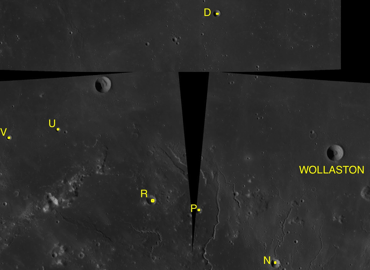 Parts of the charts LAC-23, LAC-38, LAC-39